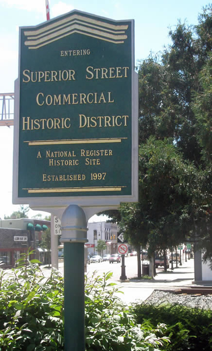 Superior Street Commercial Historic District; from the SW corner of Michigan Avenue and Superior Street looking south on business route M-99